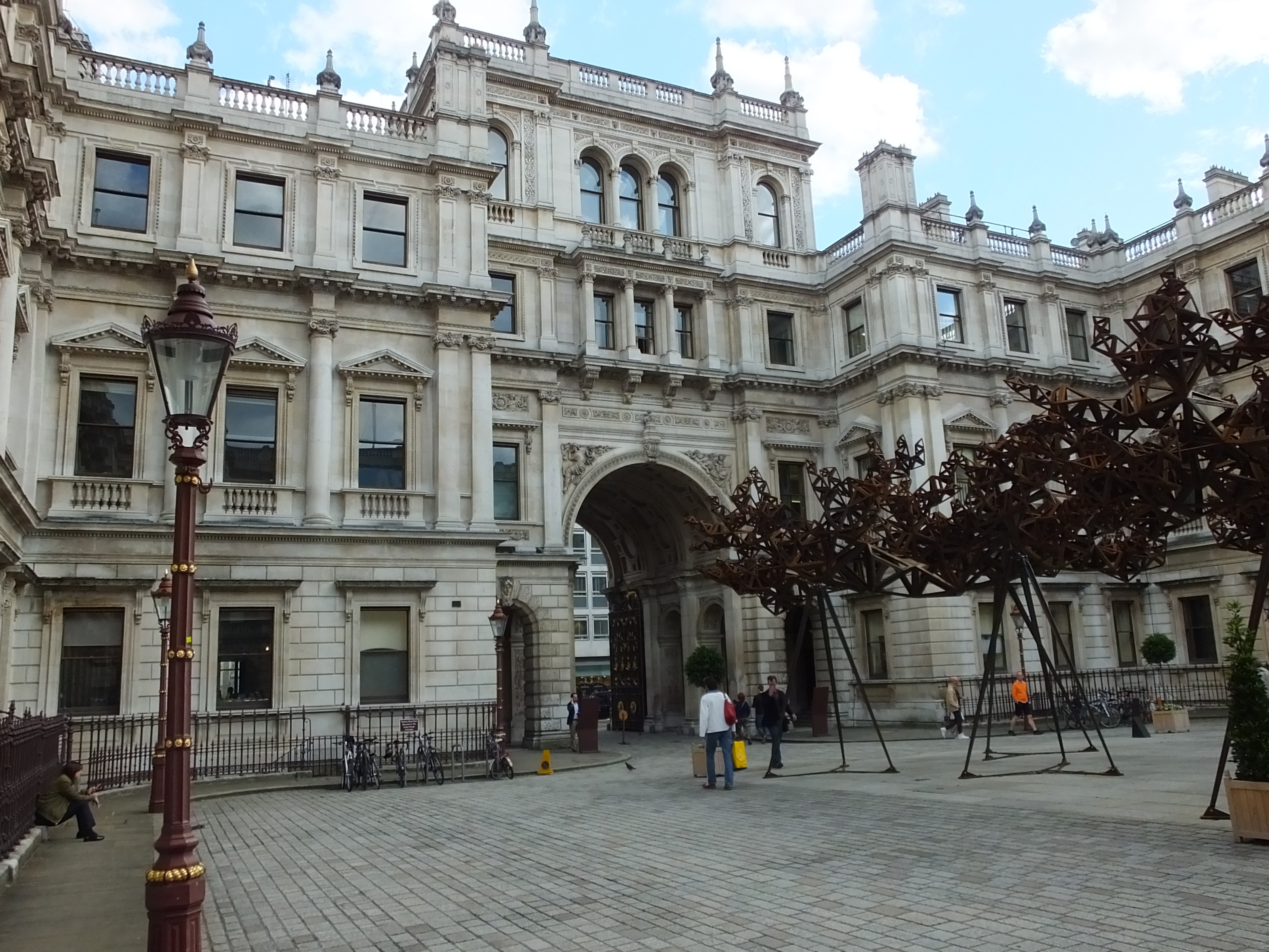 Royal Society of Chemistry headquarters, Burlington House . London, England. Wikimedia edit-a-thon. Details of the architecture of the building. The Library was remodelled in the late 1960s- when the ceiling was lowered.